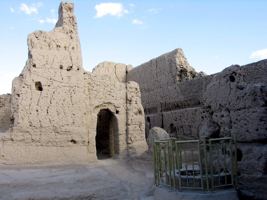 Turfan (Turpan/Tulufan) is an oasis city in the Xinjiang Uygur Autonomous Region of the People's Republic of China. Jiaohe ruins.